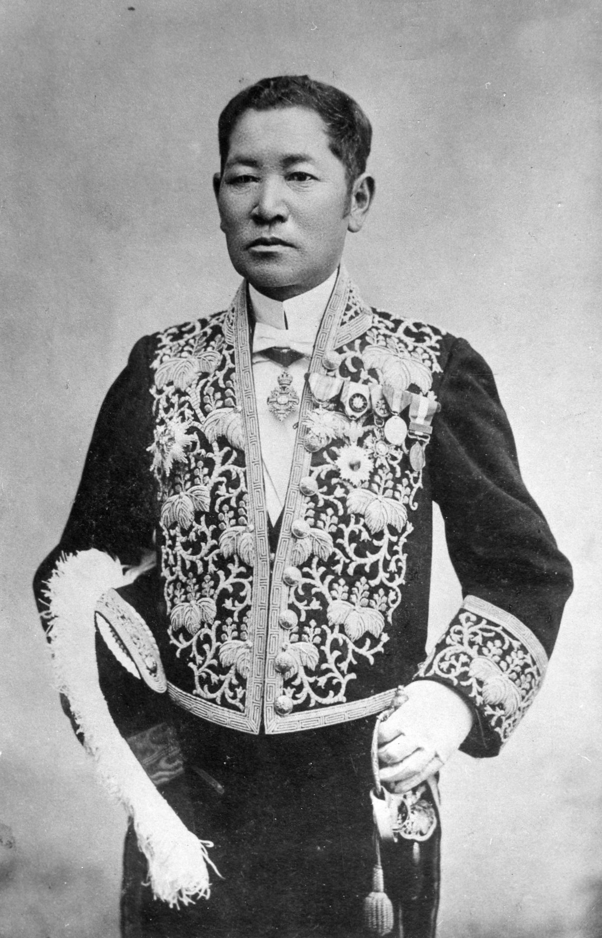 Hirayama Tojiro